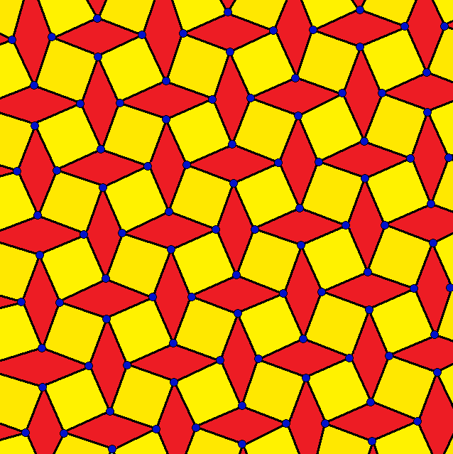 Isogonal figure example